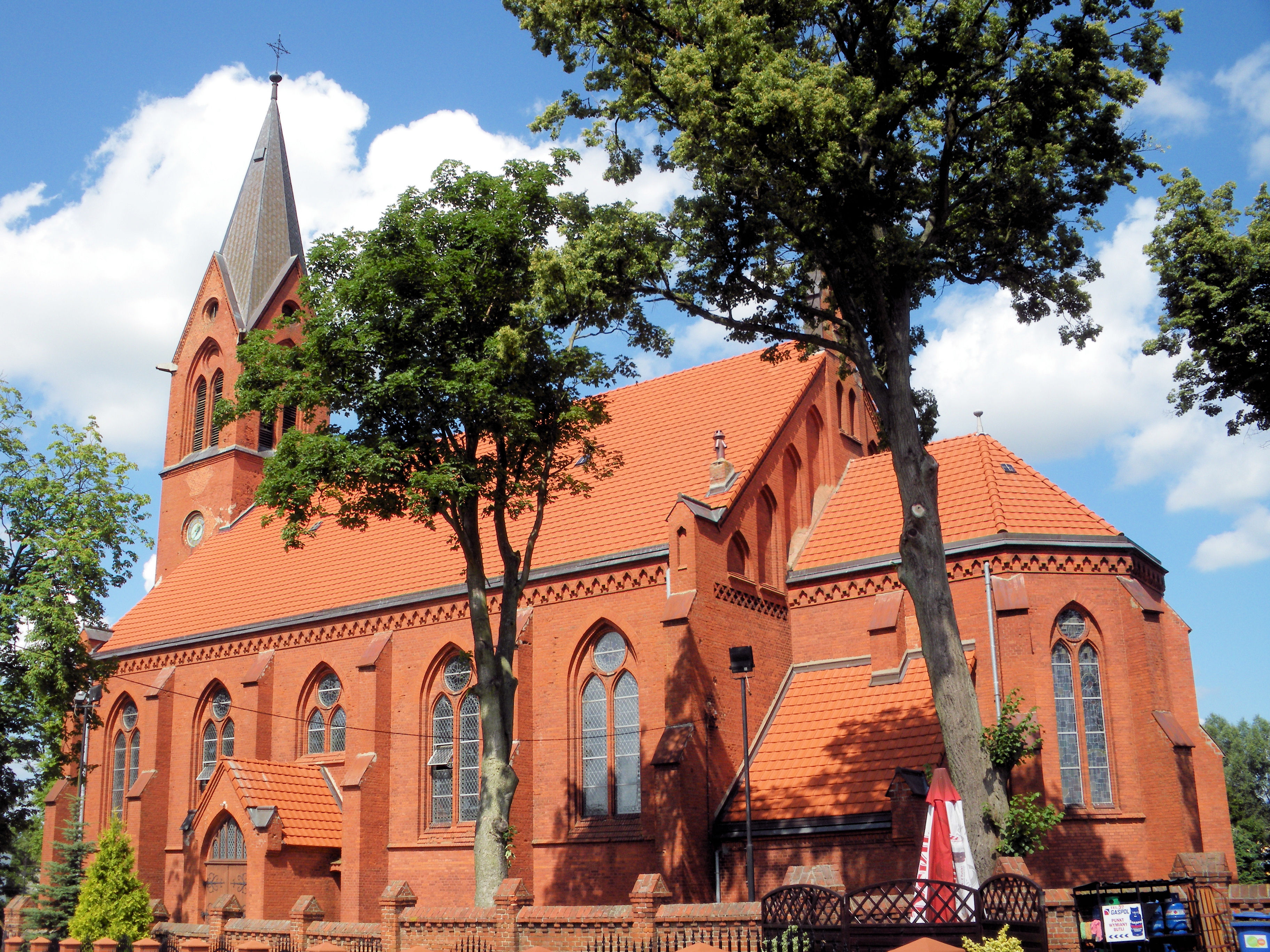 Saint Martin church in Stara Kiszewa, south side